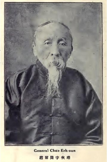 Zhao Erxun (TC: 趙爾巽; SC: 赵尔巽) (1844 - 1927) was the brother of Zhao Erfeng. He was the governor of Hubei (1907-1908) and Sichuan (1908-1911) and viceroy (1911) and governor (1912) of Fengtian.[1]